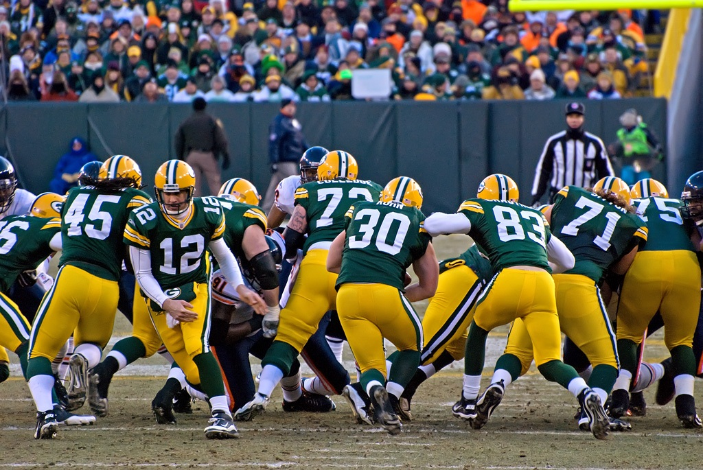 Lambeau Field - January 2, 2011. Photo by Mike Morbeck.